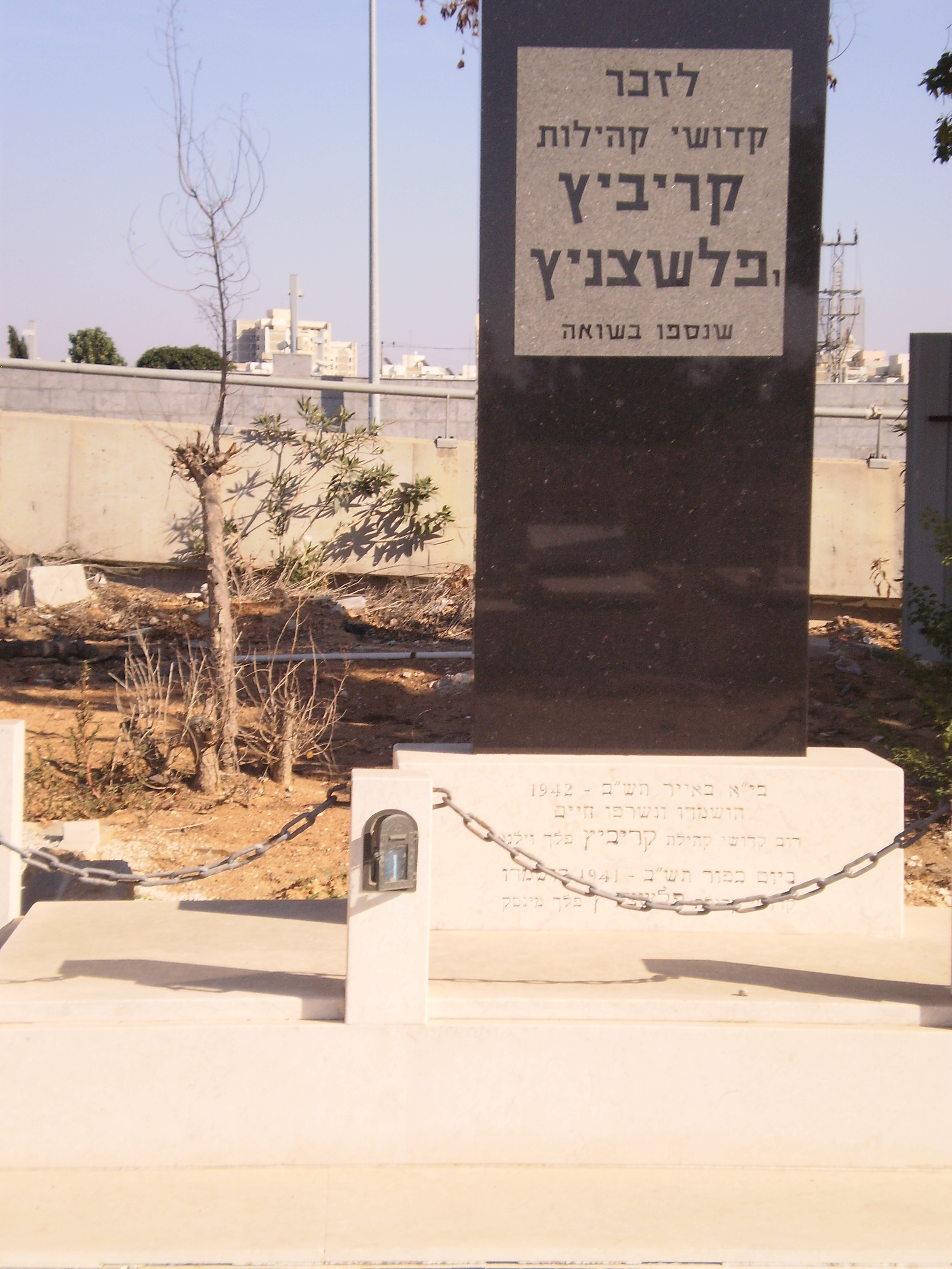 Krzywicze and Pleszczenice Jewery Holocaust memorial at Holon Cemetery